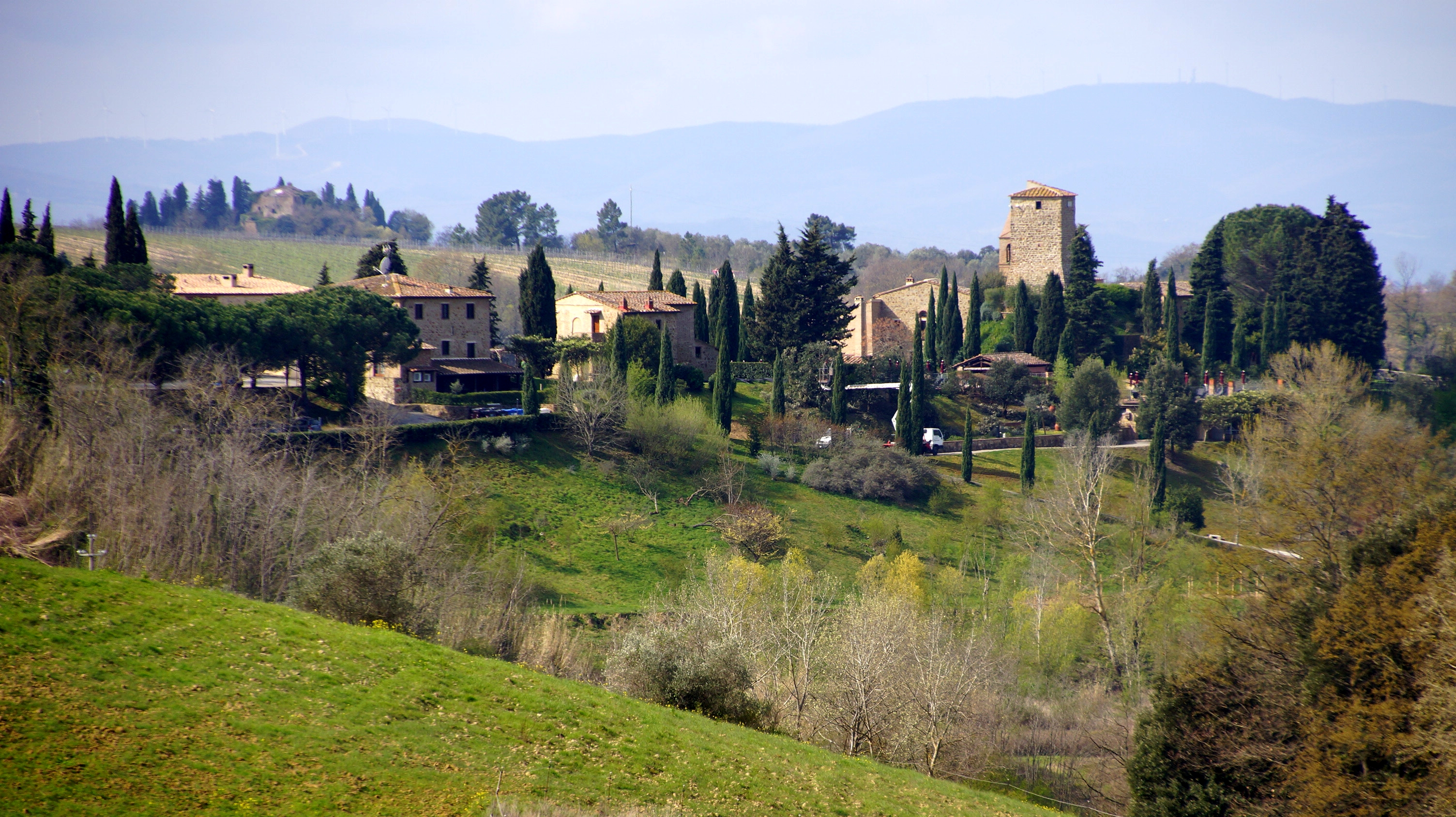 Tonda near Montaione in Tuscany